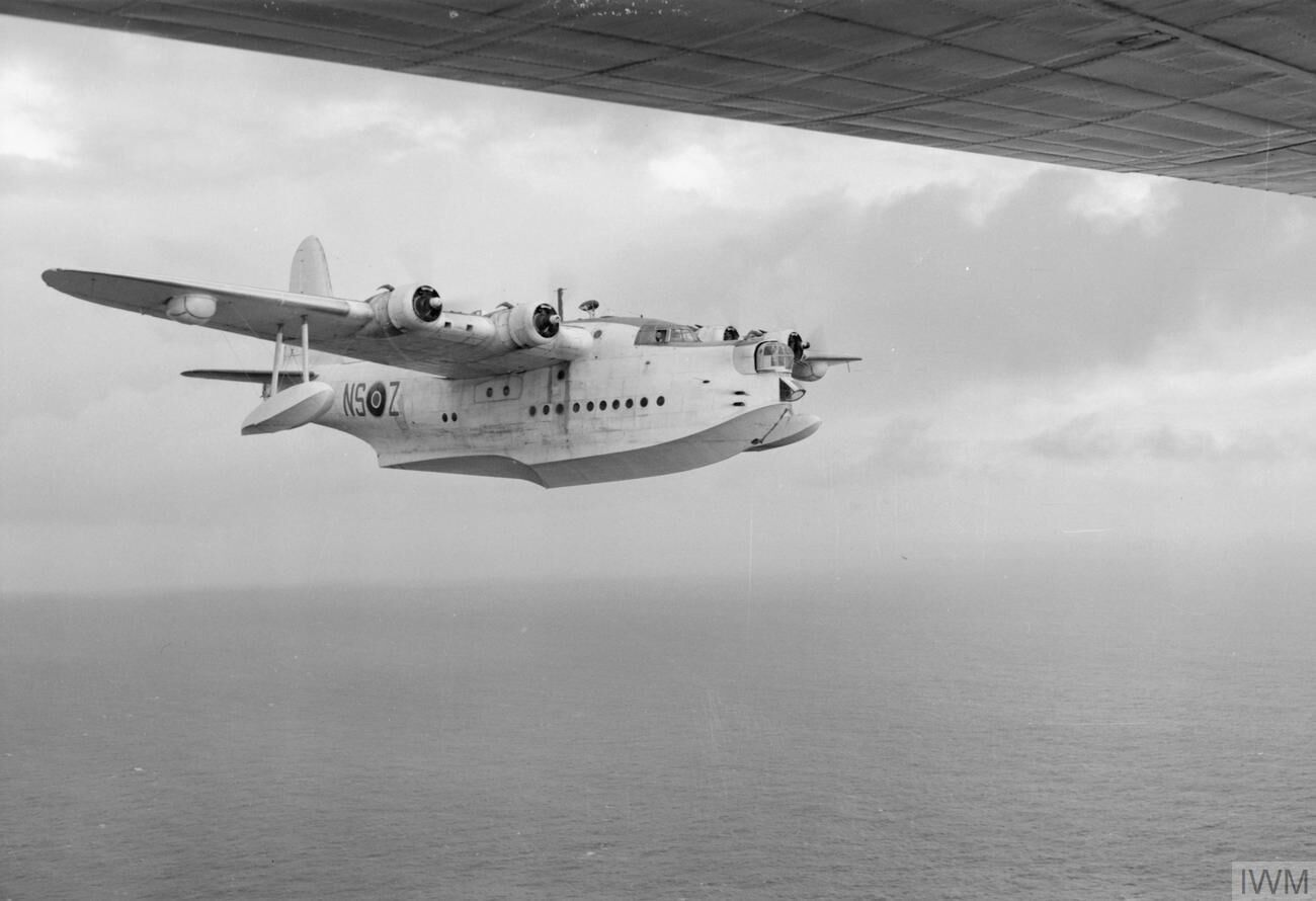 Aircraft of the Royal Air Force 1939-1945- Short S.25 Sunderland. Sunderland GR Mark V, ML778 "NS-Z", piloted by Wing Commander J Barrett, the Commanding Officer of No. 201 Squadron RAF based at Castle Archdale, County Fermanagh, flying the last operational sortie of the war undertaken by Coastal Command.